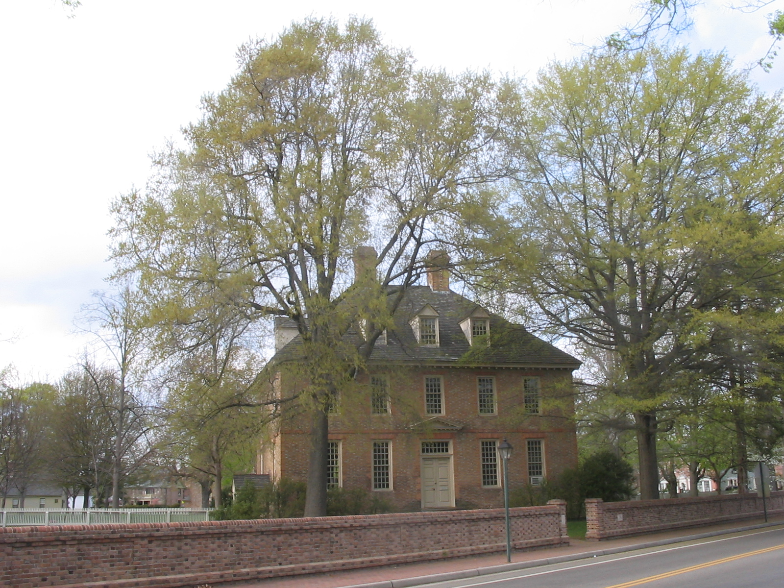 The Brafferton, seen from Jamestown Road. The Brafferton, built in 1723, is located southeast of the Sir Christopher Wren Building, facing the President's House on the campus of the College of William and Mary in Williamsburg, Virginia.